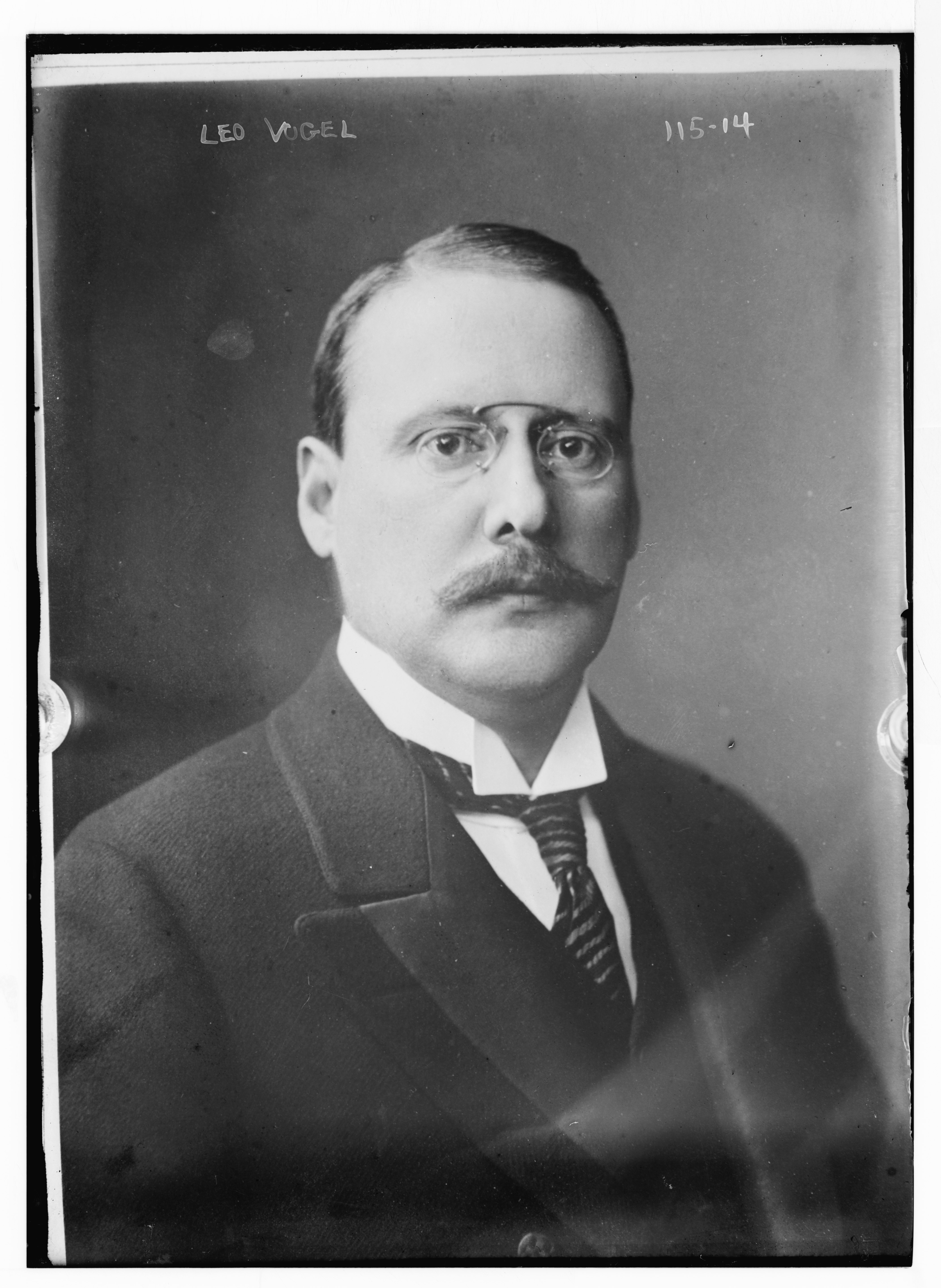 Title: Leo Vogel, portrait bust Abstract/medium: 1 negative : glass ; 5 x 7 in. or smaller.